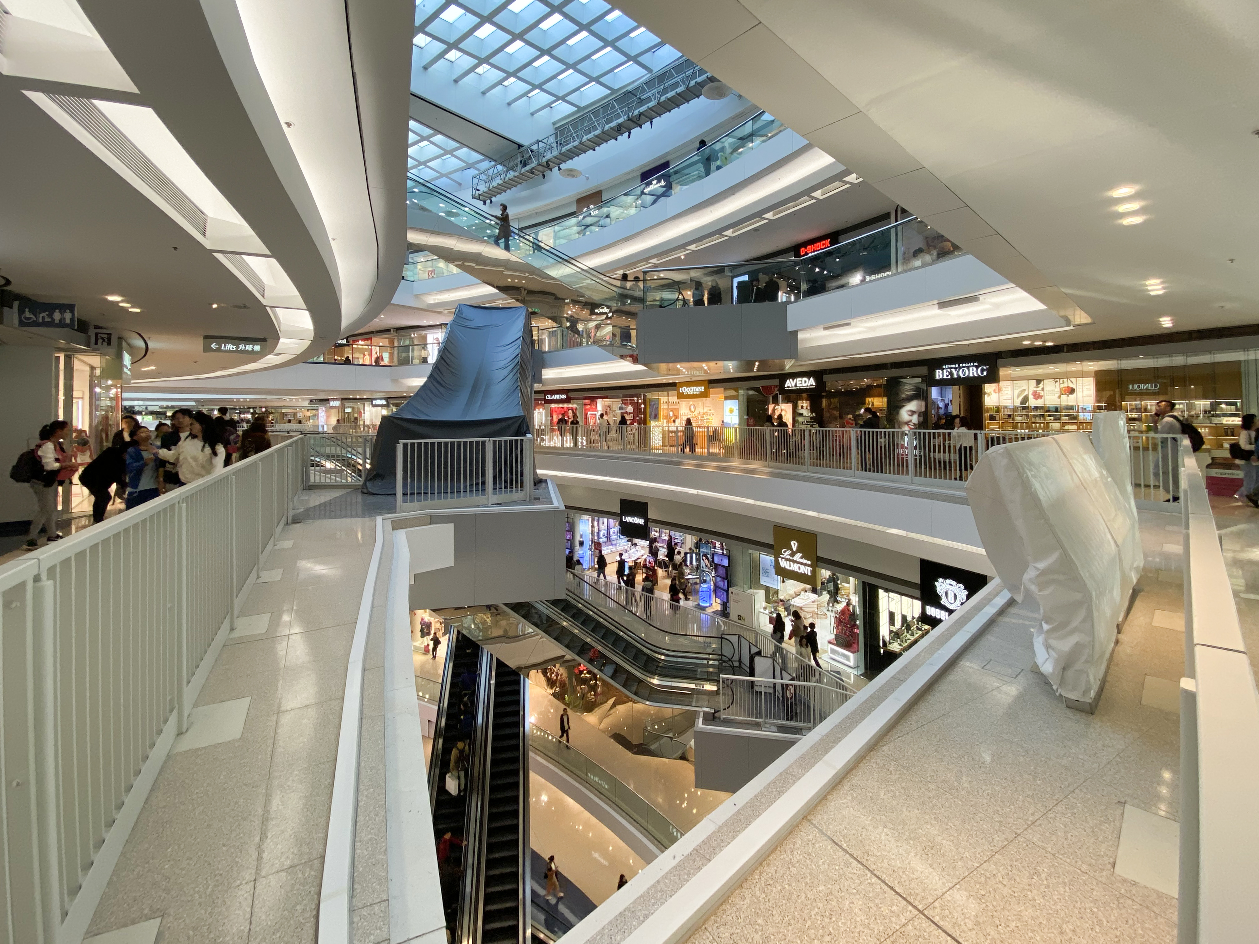 Festival Walk interior view